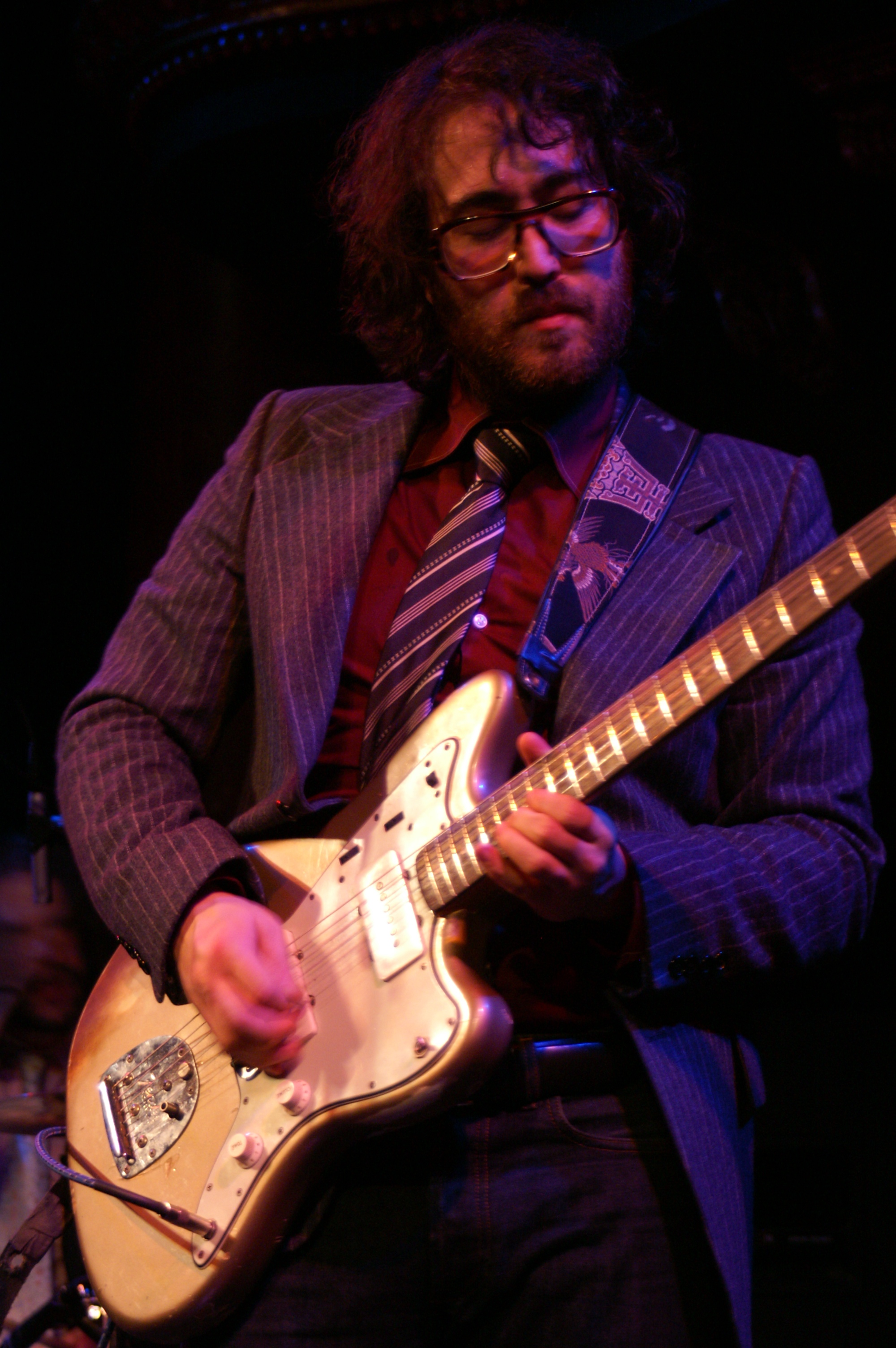 Sean Ono Lennon, at the Great American Music Hall in San Francisco, on the final stop of his 2006/2007 Friendly Fire tour. Taken with explicit permission of the subject.